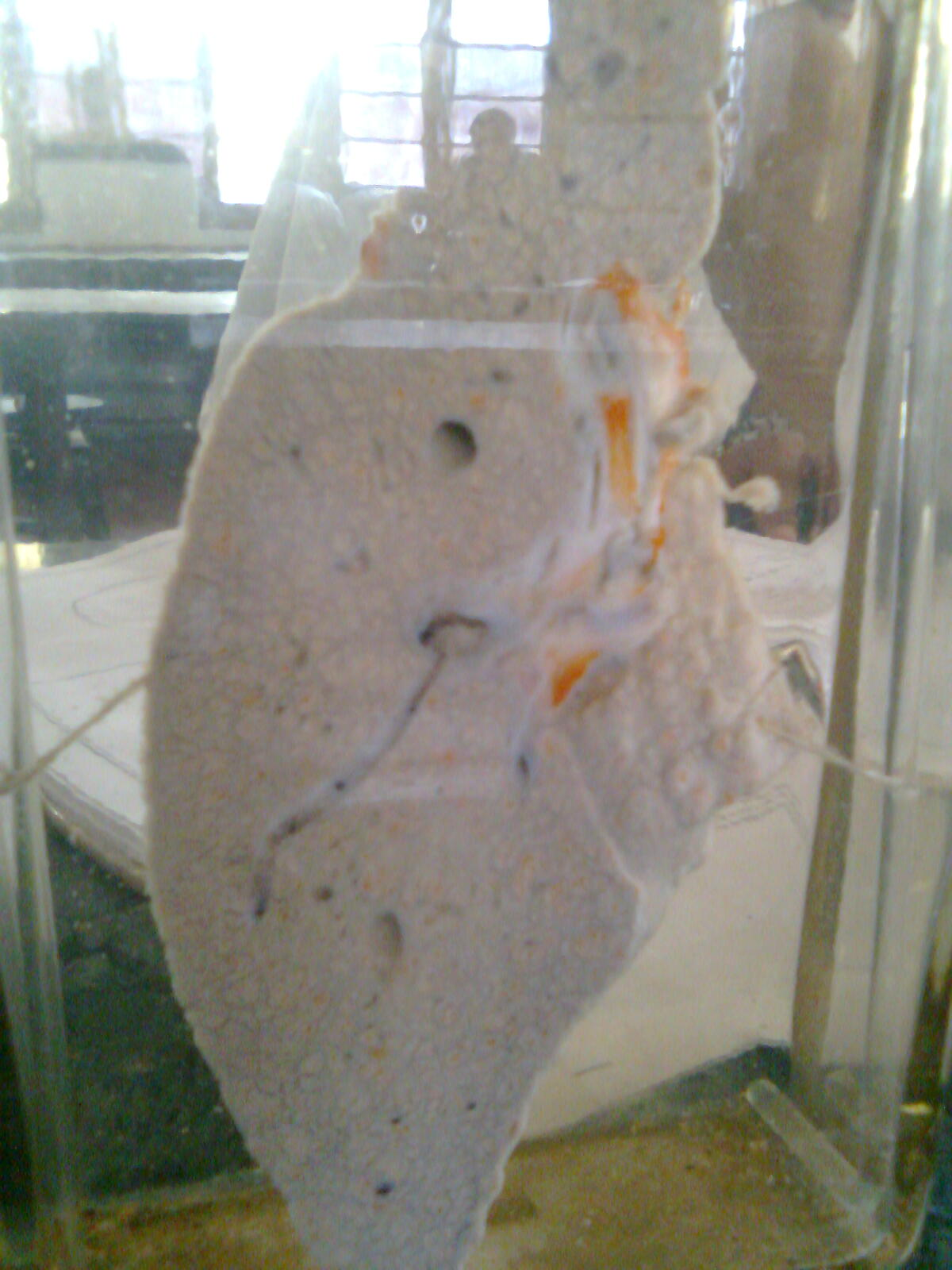 Cut section of the liver showing cirrhosis